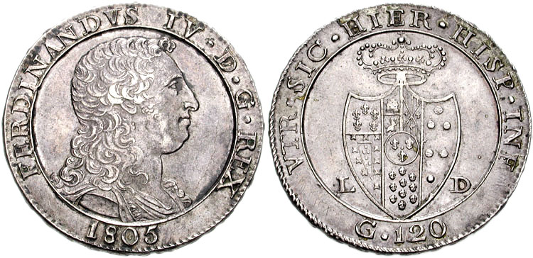 Italy, Kingdom of Naples. Ferdinand IV. Second reign, 1799-1805. AR Piastra or 120 Grana (38mm, 27.66 g, 833,3/1000). Dated 1805. Bare-headed and draped bust right. Around FERDINANDVS IV D.G.REX Crowned royal coat-of-arms. At side letters L.D. (Luigi Diodati, mint master). Around VTR.SIC.HIER.HISP.INF. Below G. 120 Obverse die engraver is Filippo Rega Pannutti 9; KM 99.3.